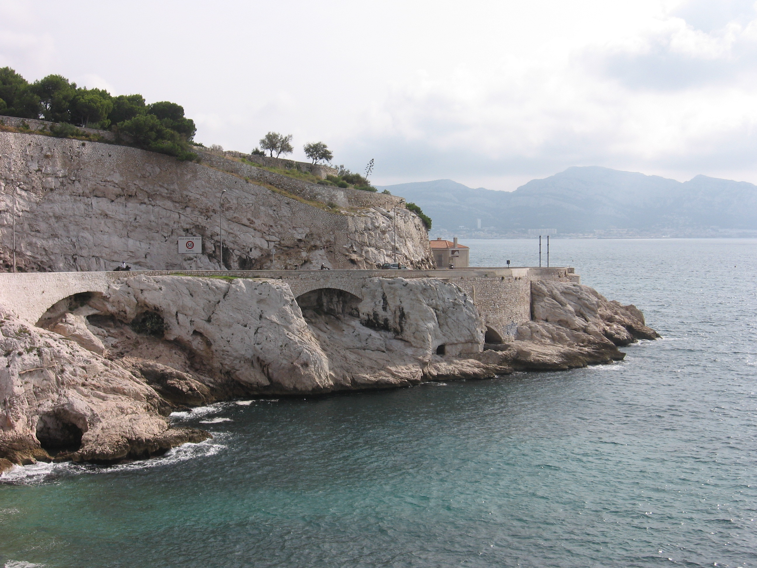 Corniche Président John Kennedy